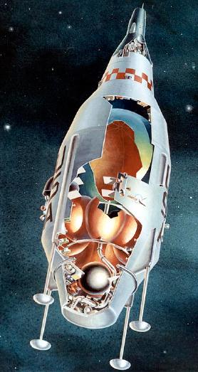 SASSTO Vertical Takeoff and Vertical Landing space launcher concept , by Philip Bono.